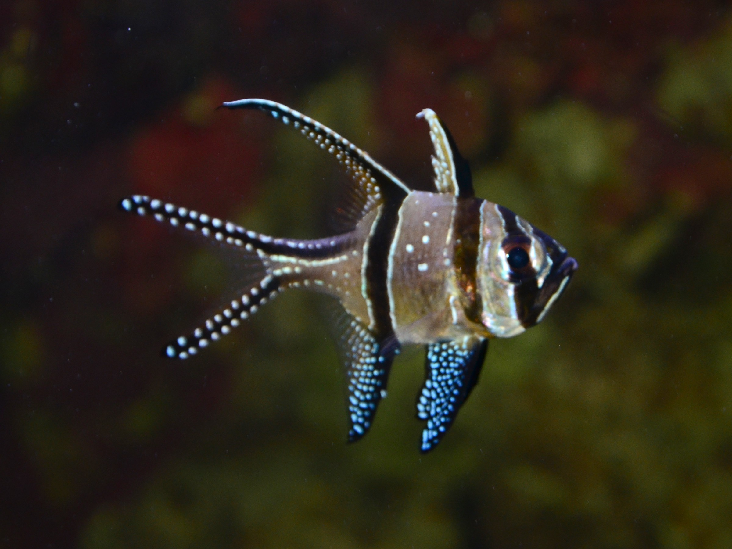 Banggai cardinalfish